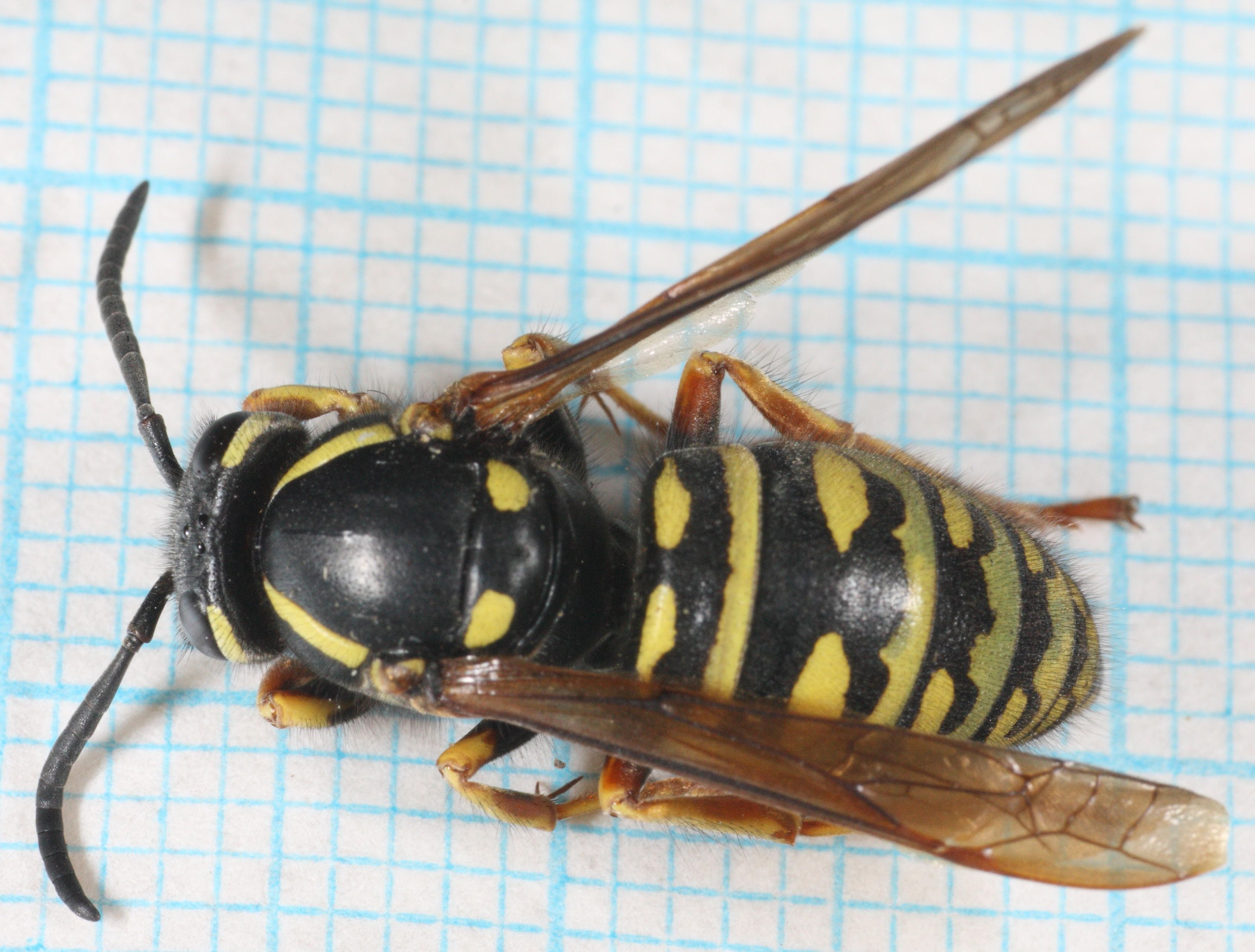 Queen of Red cuckoo wasp Vespula austriaca. Showing the long erect hairs along the hind tibia.